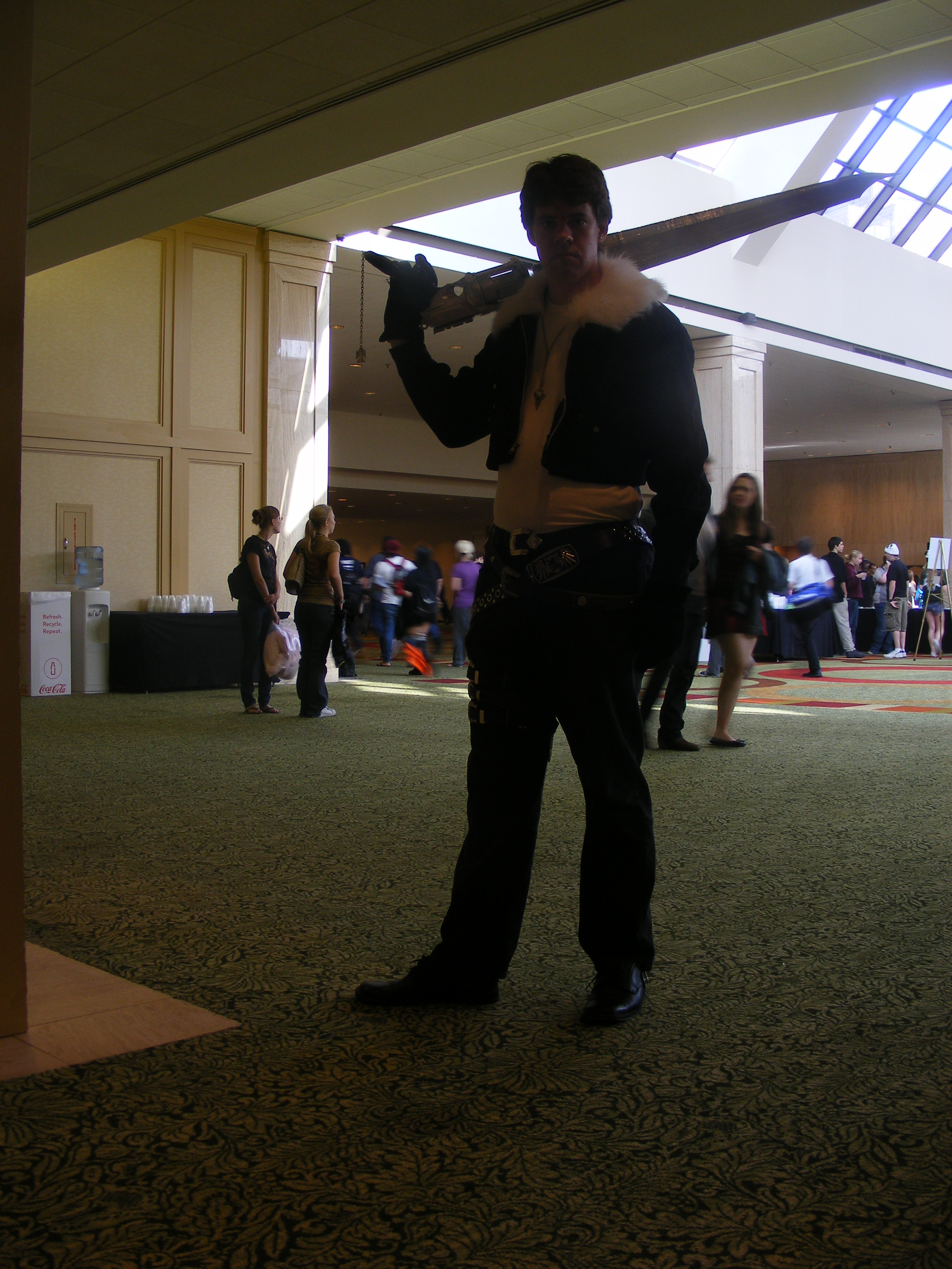 Cosplay - AWA15 - Squall Leonhart